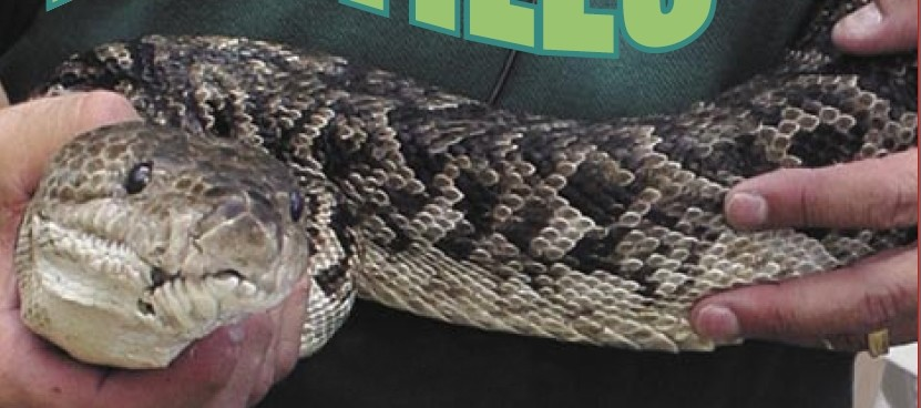 Cuban Dwarf Boa -- Tropidophis melanurus Old category said Epicrates angulifer. Dysmorodrepanis (talk) 05:14, 20 October 2010 (UTC)